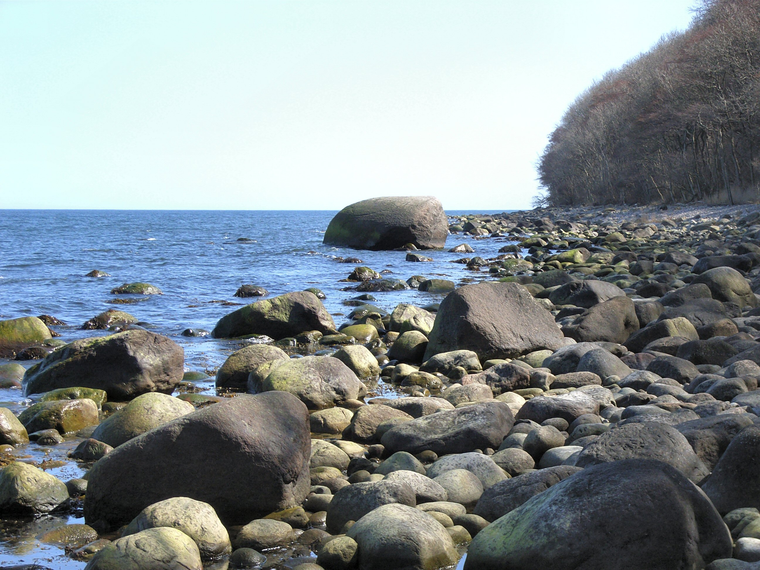 Glacial erratic near Blandow on island Rügen